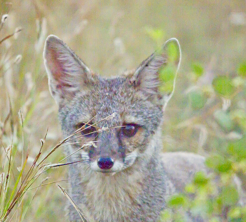 Adult